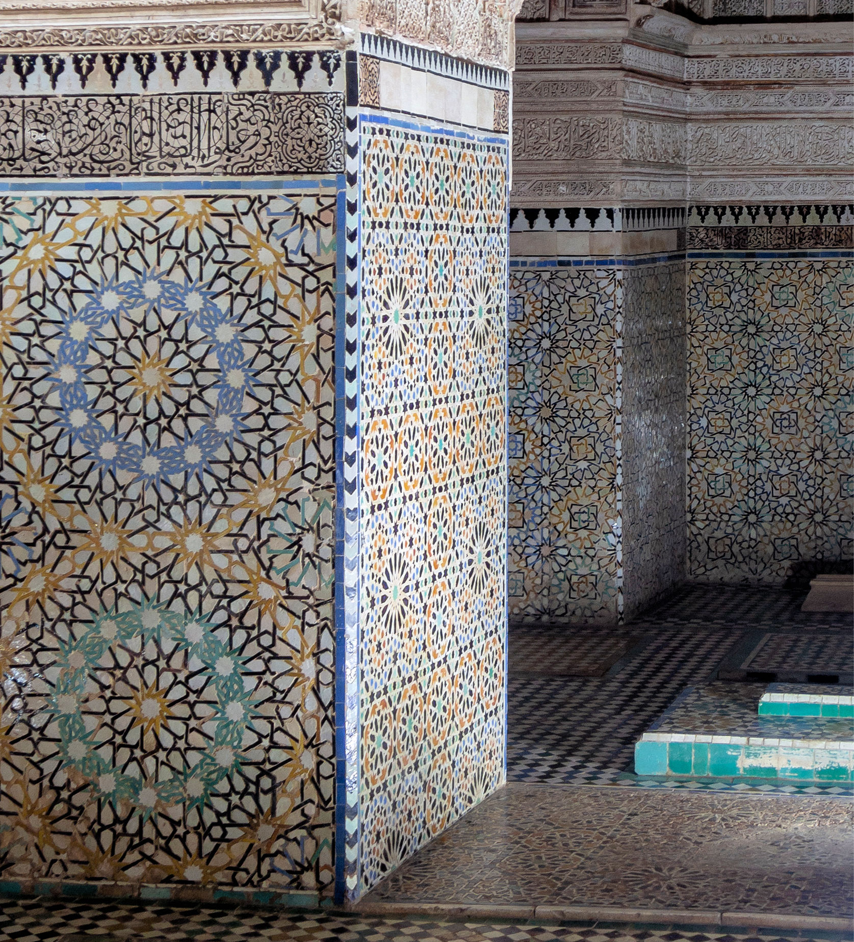 Zellij tiles in the Saadian Tombs, Mausoleum of Ahmad al-Mansur. These tiles present a particular step in the evolution of zellij in Morocco, where the use of very fine thin pieces are used to form geometric patterns. (Cropped and lightened from previously uploaded picture by C messier in order to focus on the zellij tiles.)